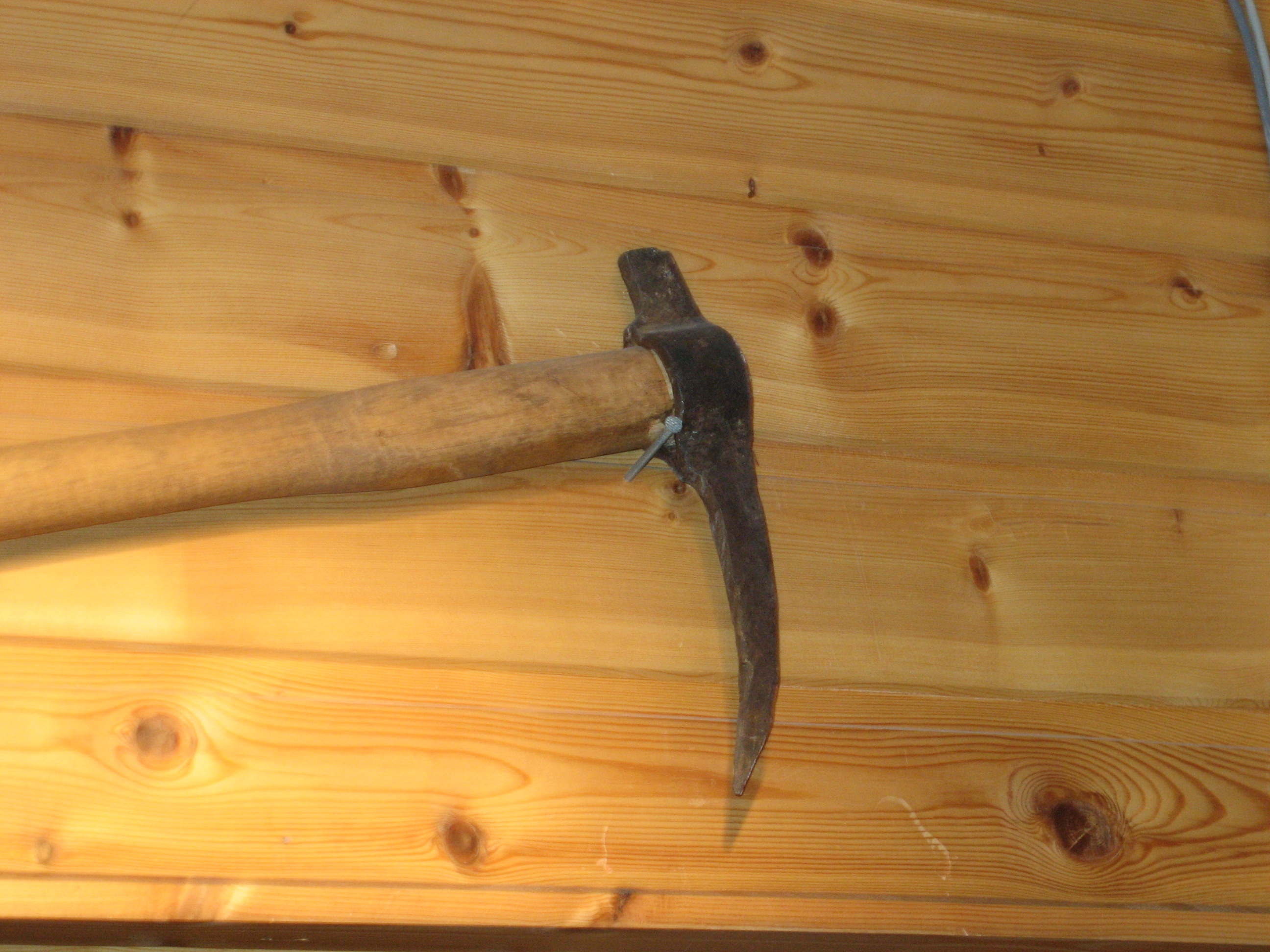 A hakapik displayed in a gun shop in Tromsø, Norway.